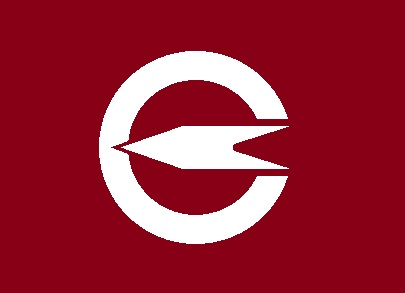 Flag of Katsurao Fukushima